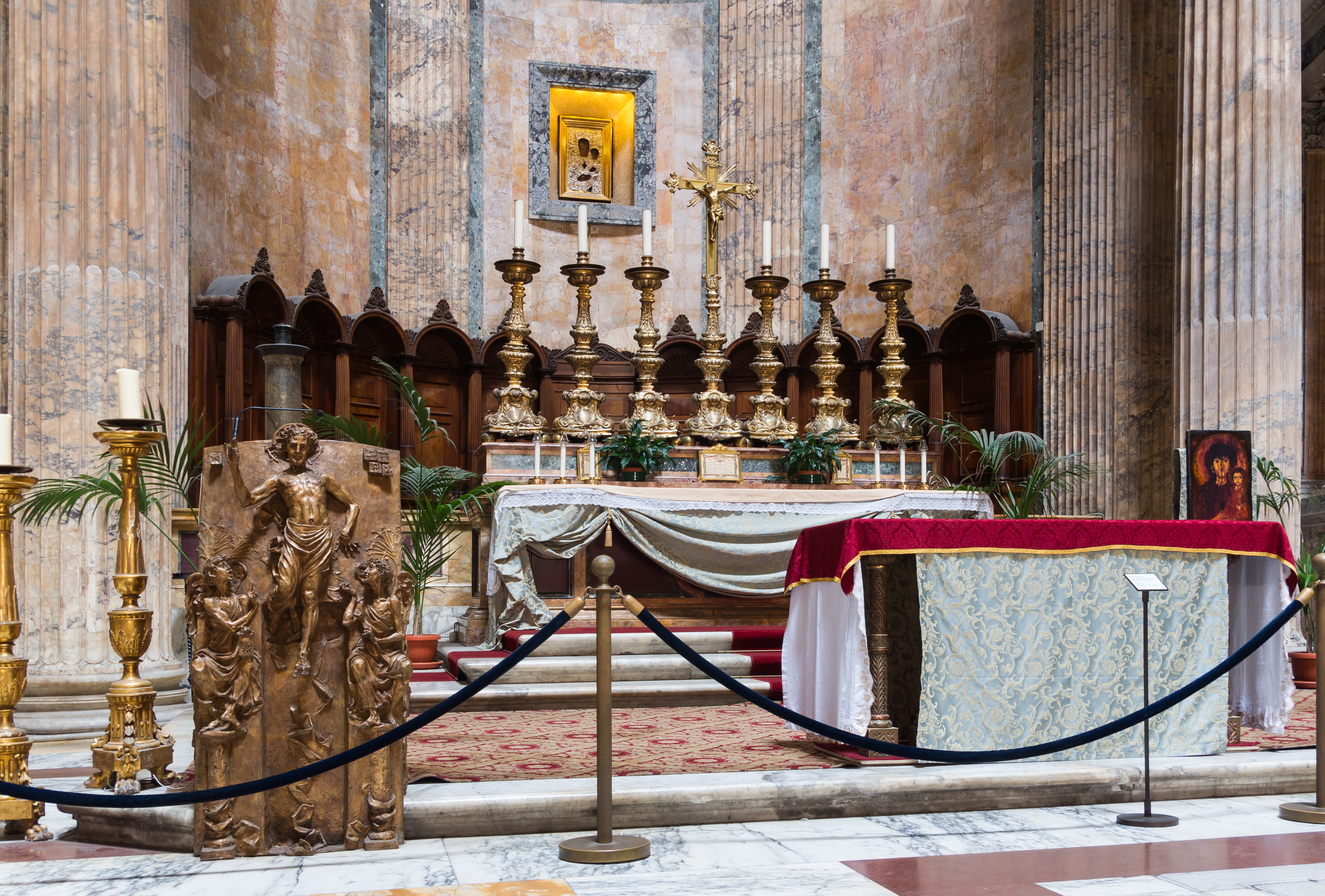 The main altar of the church Sancta Maria ad Martyres (the Pantheon), in Rome, Italy.